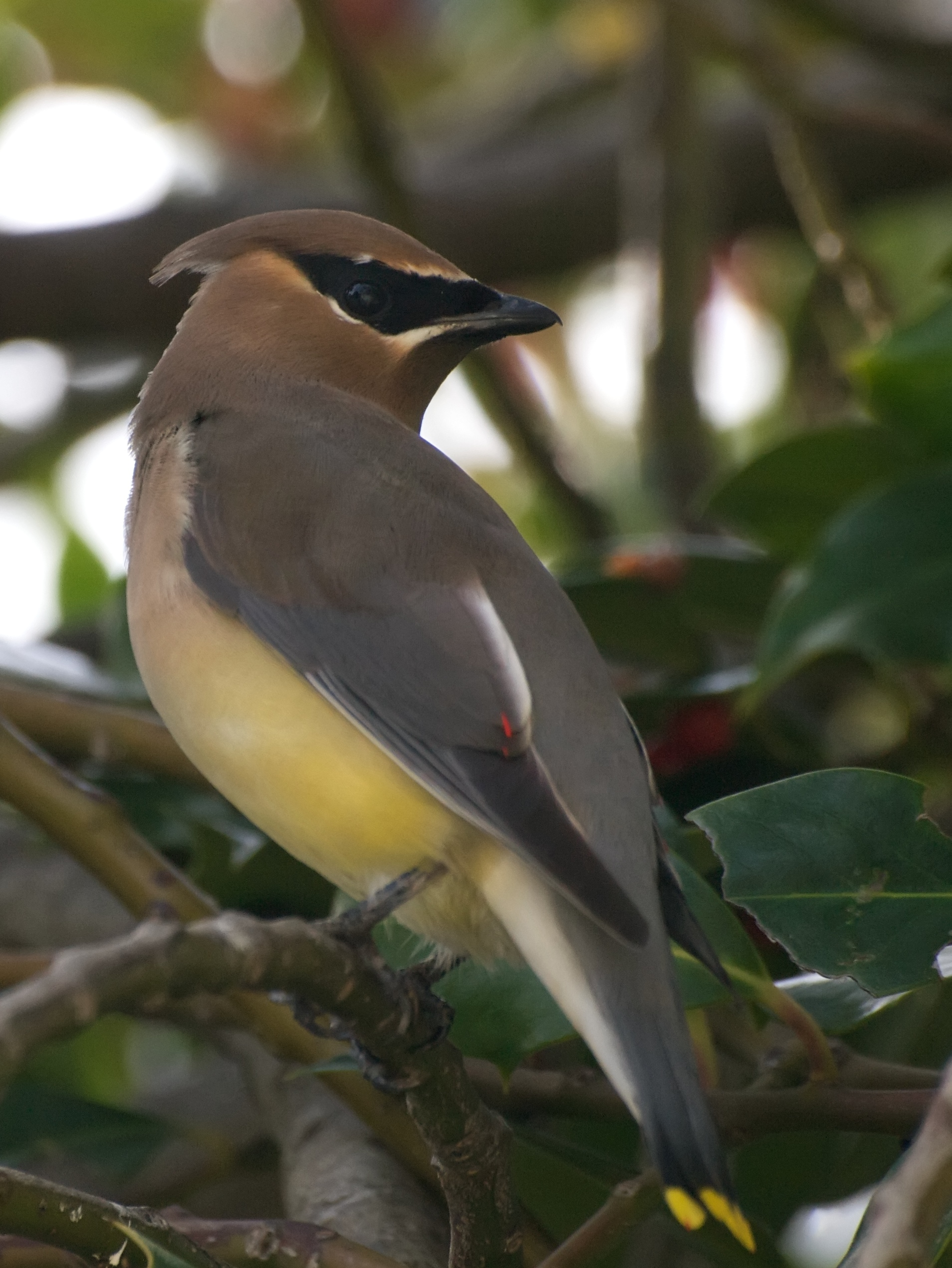 Cedar waxwings (Bombycilla cedrorum)just returned to the Bay Area. One huge flock usually stays a couple weeks in our garden, eating berries whole from the holly and pyracantha trees.